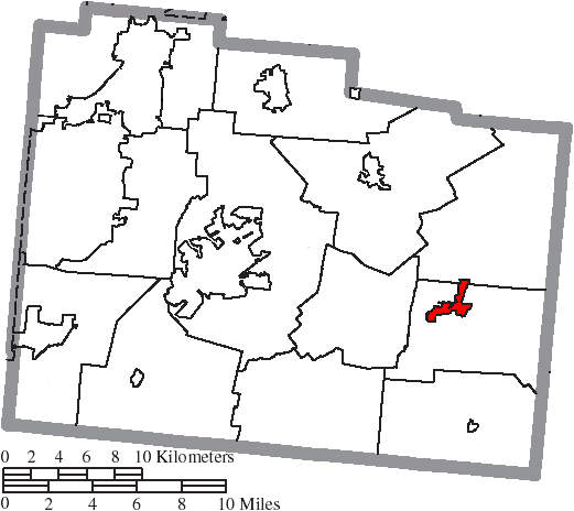 Map of the municipal and township boundaries of Greene County, Ohio, United States, as of the 2000 census, with the location of the village of Jamestown highlighted. Township borders are shown only in unincorporated areas in order to differentiate incorporated and unincorporated areas more clearly.